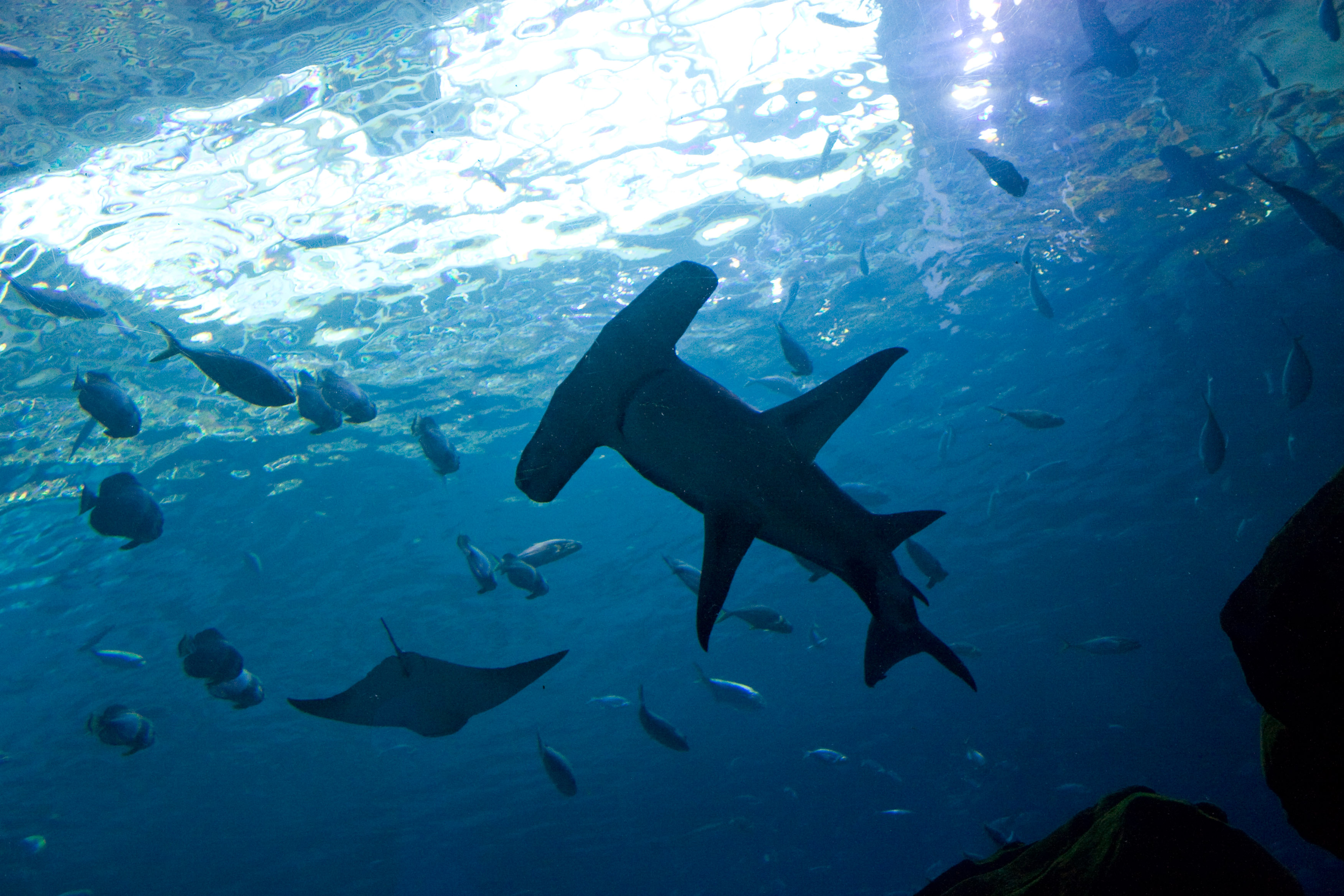 Great hammerhead (Sphyrna mokarran) at the Georgia Aquarium.